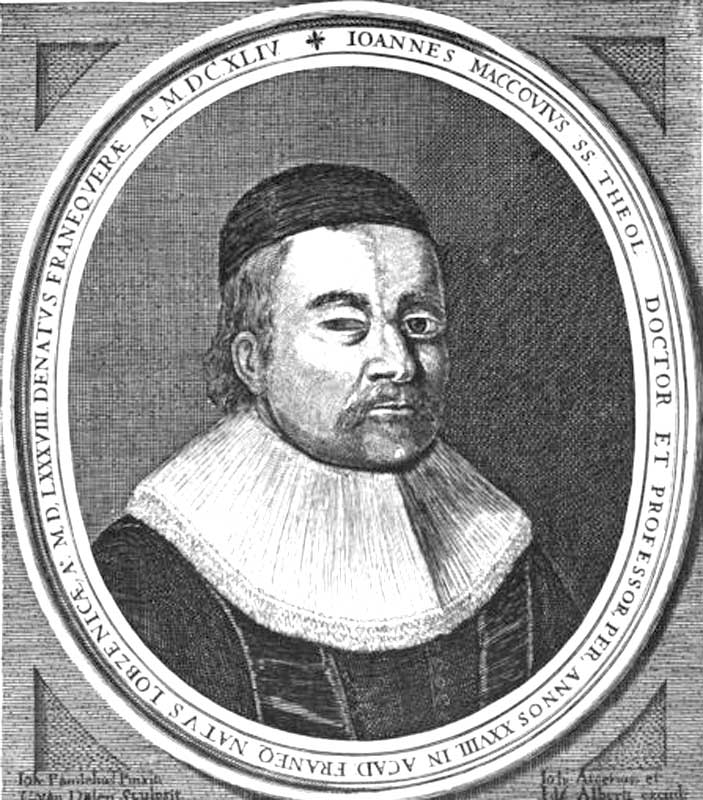 Johannes Maccovius (1588-1644) is a Polish Reformed theologian